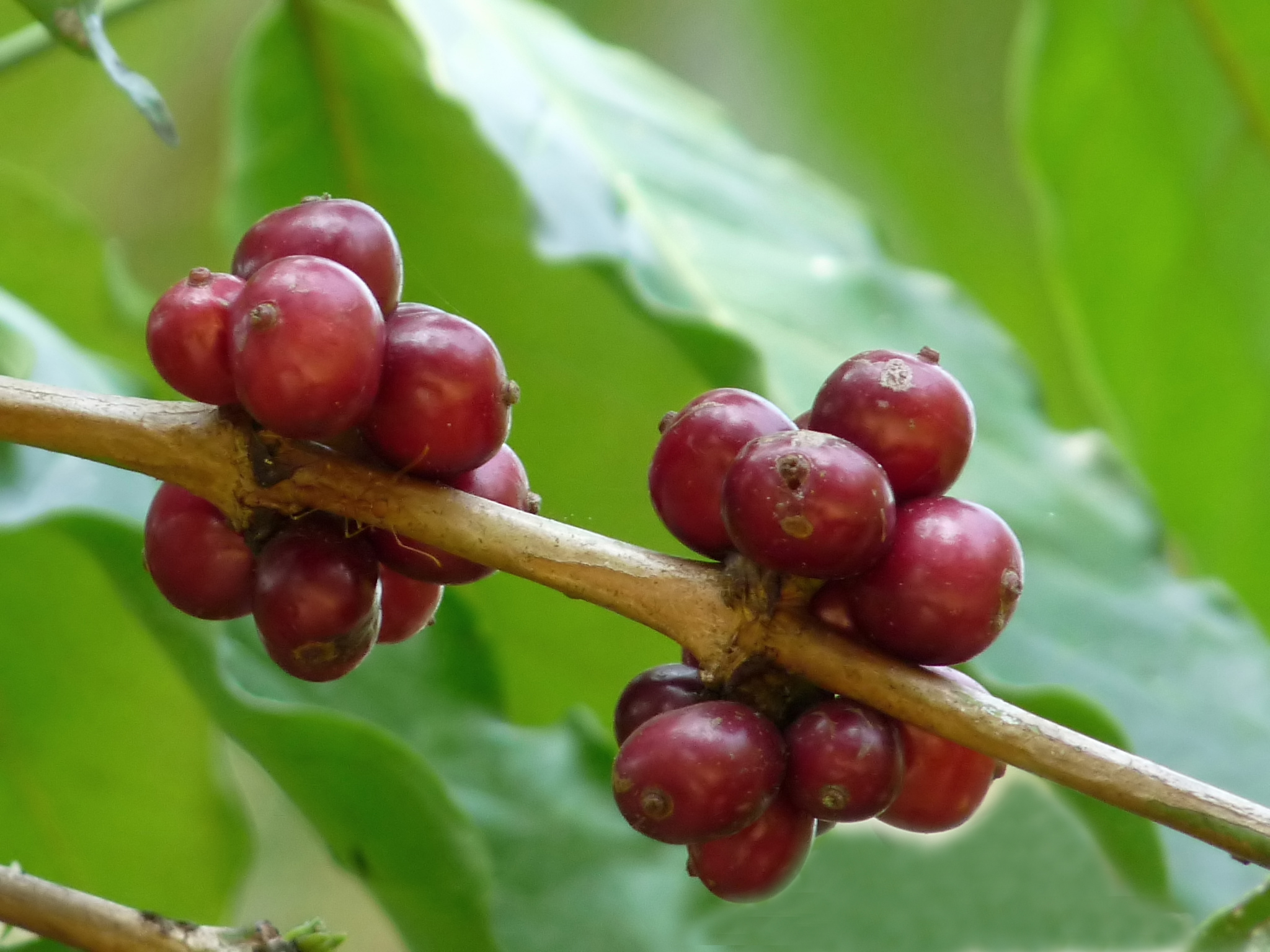 Robusta coffee (Coffea canephora; syn. Coffea robusta) is a species of coffee that has its origins in central and western sub-Saharan Africa. It is a species of flowering plant in the Rubiaceae family. Though widely known as Coffea robusta, the plant is scientifically identified as Coffea canephora, which has two main varieties - Robusta and Nganda. The plant has a shallow root system and grows as a robust tree or shrub to about 10 metres. It flowers irregularly, taking about 10–11 months for cherries to ripen, producing oval-shaped beans. The robusta plant has a greater crop yield than that of Coffea arabica, and contains more caffeine - 2.7% compared to arabica's 1.5%. As it is less susceptible to pests and disease, robusta needs much less herbicide and pesticide than arabica. Originating in upland forests in Ethiopia, C. canephora grows indigenously in Western and Central Africa. It was not recognized as a species of Coffea until the 19th century, about a hundred years after Coffea arabica.